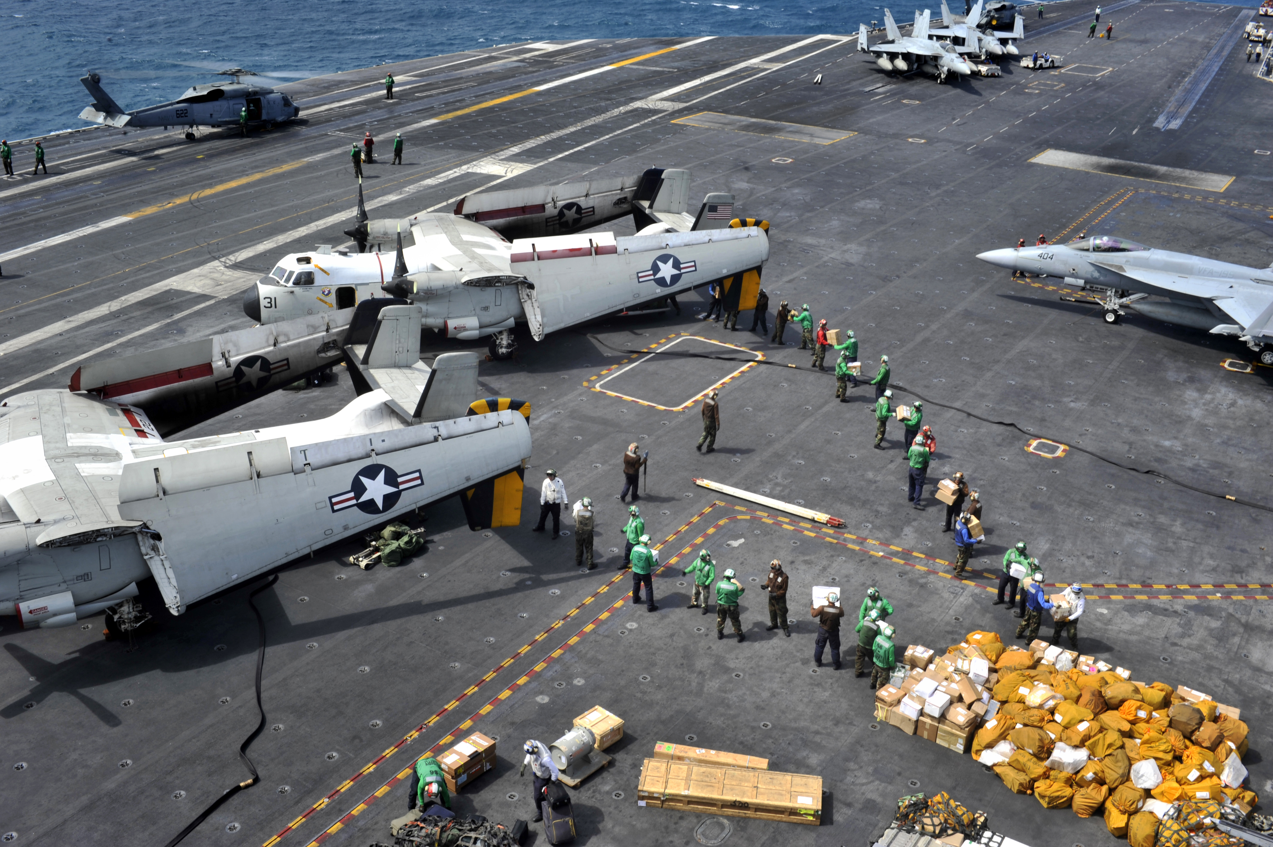 INDIAN OCEAN (July 22, 2011) Sailors move more than ten thousand pounds of mail delivered by two C-2A Greyhound aircraft assigned to Carrier Logistic Squadron VRC-30 Detachment 5 (Atsugi, Japan) aboard the aircraft carrier USS George Washington (CVN 73). George Washington is participating in Exercise Talisman Sabre 2011, a bilateral exercise intended to train Australian and U.S. Forces in planning and conducting combined task force operations. (U.S. Navy photo by Mass Communication Specialist 2nd Class Juan Pinalez/Released)